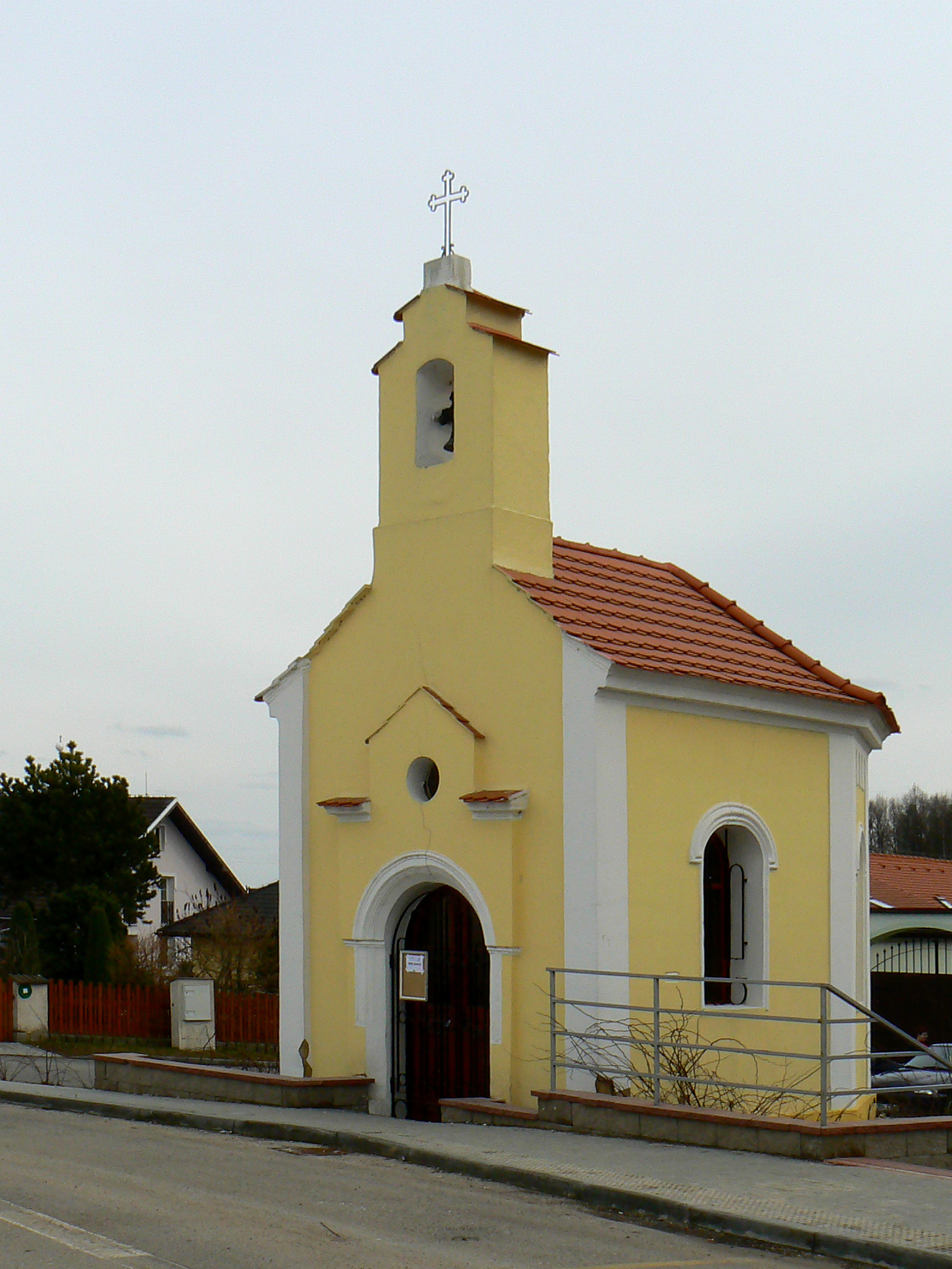 Chapel in Šindlovy Dvory, České Budějovice district, Czech Republic